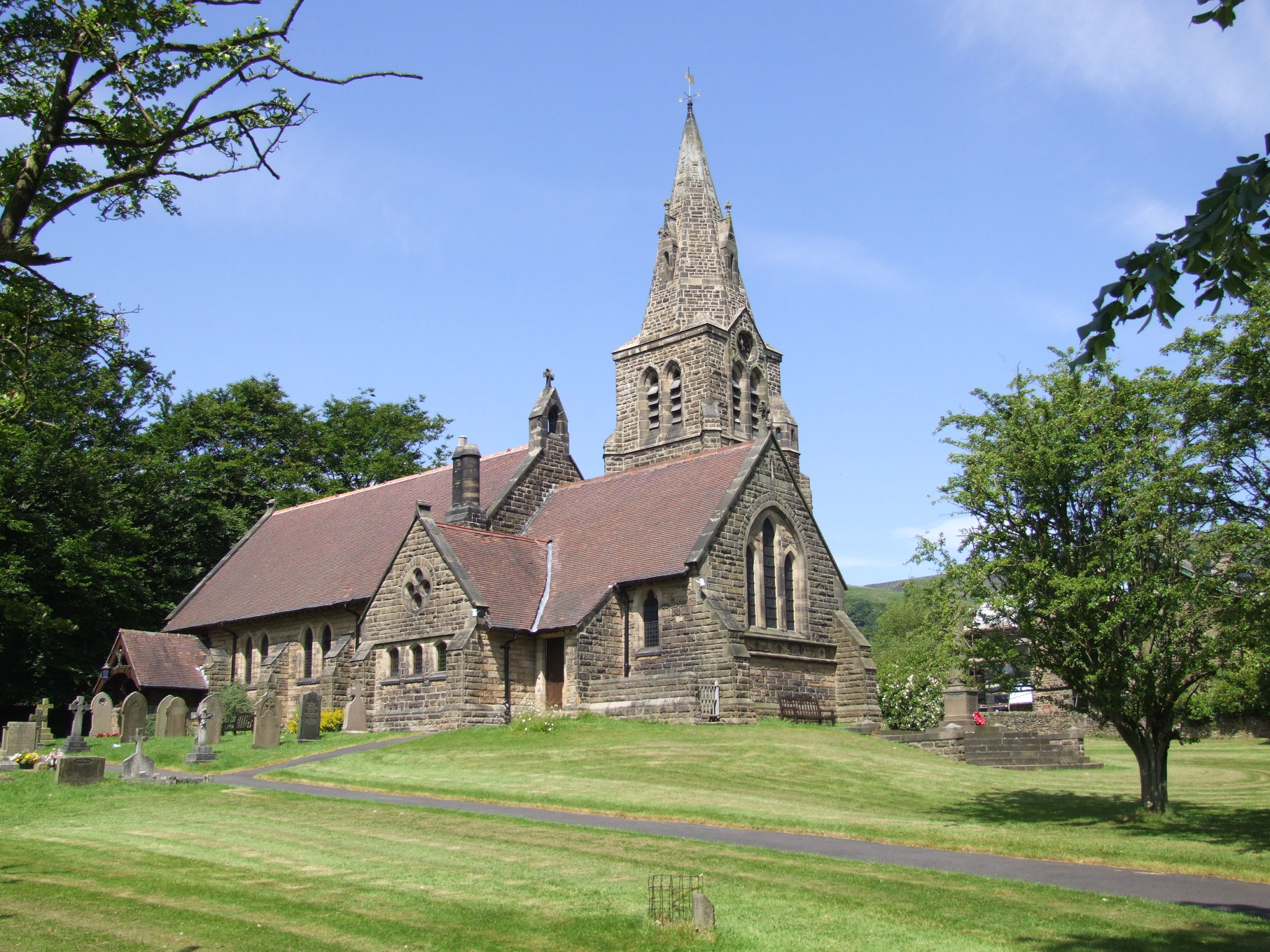 Edale is a small Derbyshire village and Civil parish in the Peak District of England. The Parish of Edale, area 2,844.8ha is in the Borough of High Peak. The Church